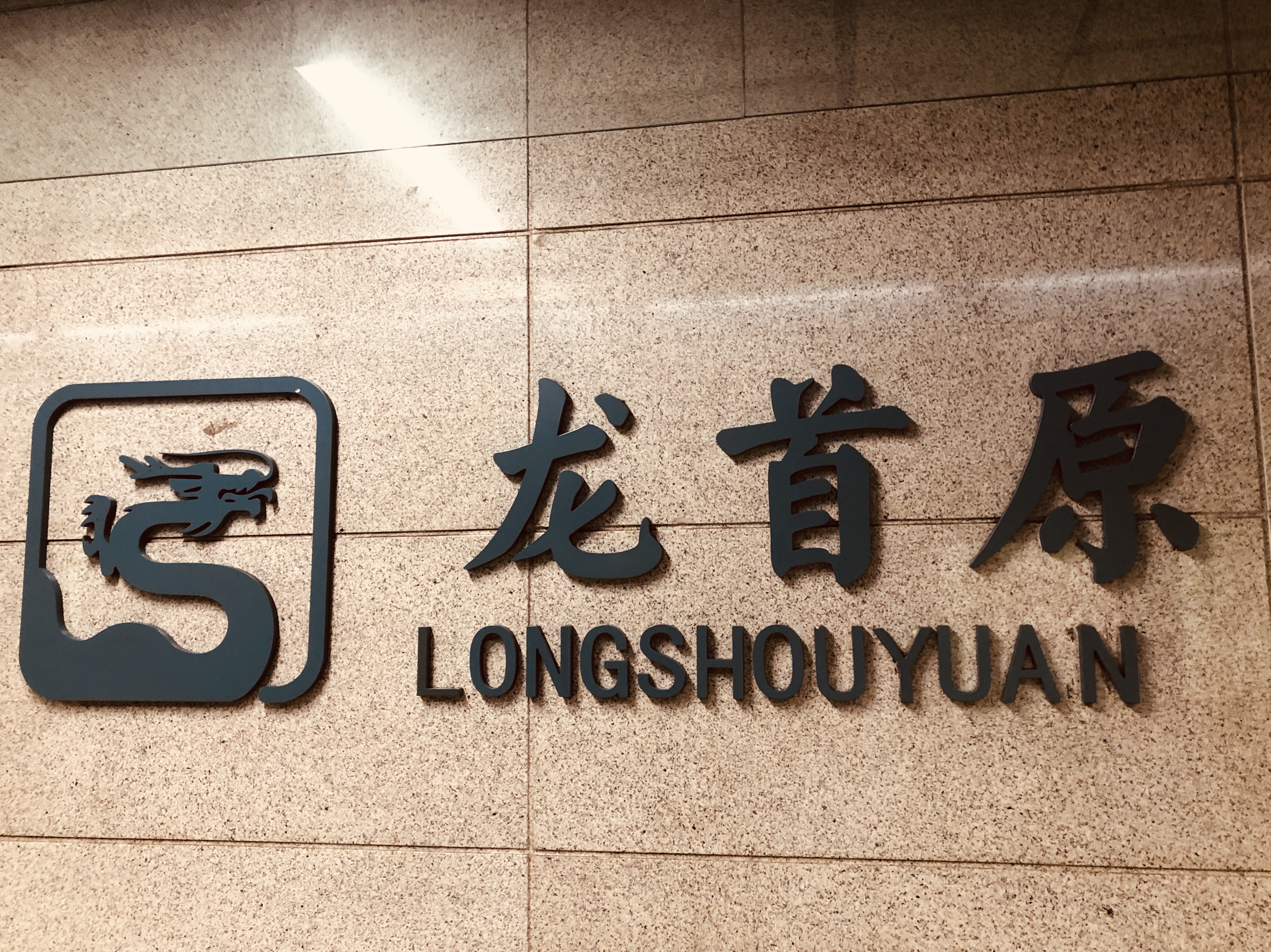 Station name plate